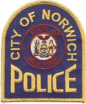 Norwich Police Shoulder patch